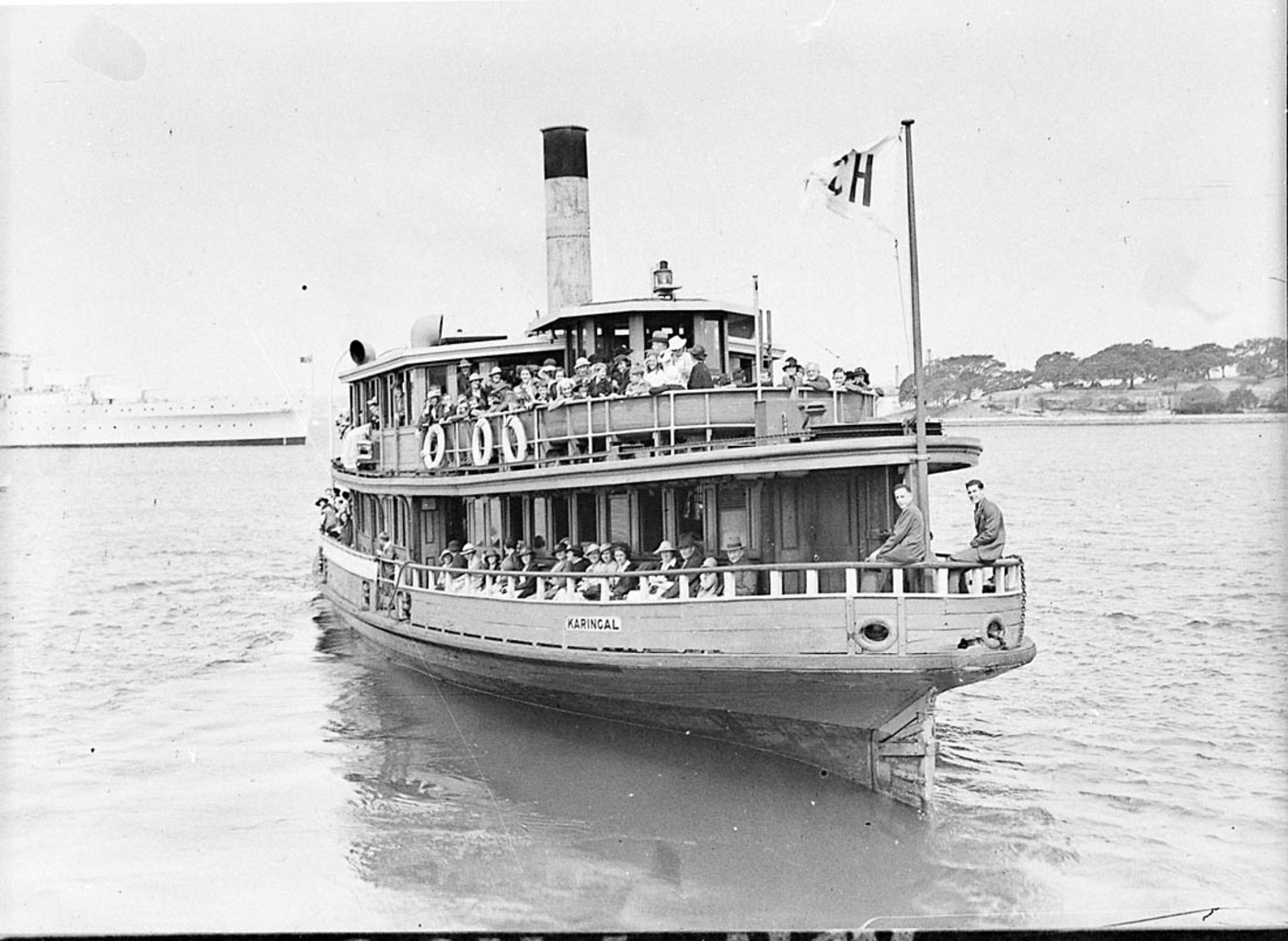 2CH "Jollyboat" Karingal leaving Circular Quay